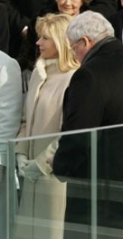 Liz Cheney at the Second inauguration of George W. Bush on January 20, 2005.